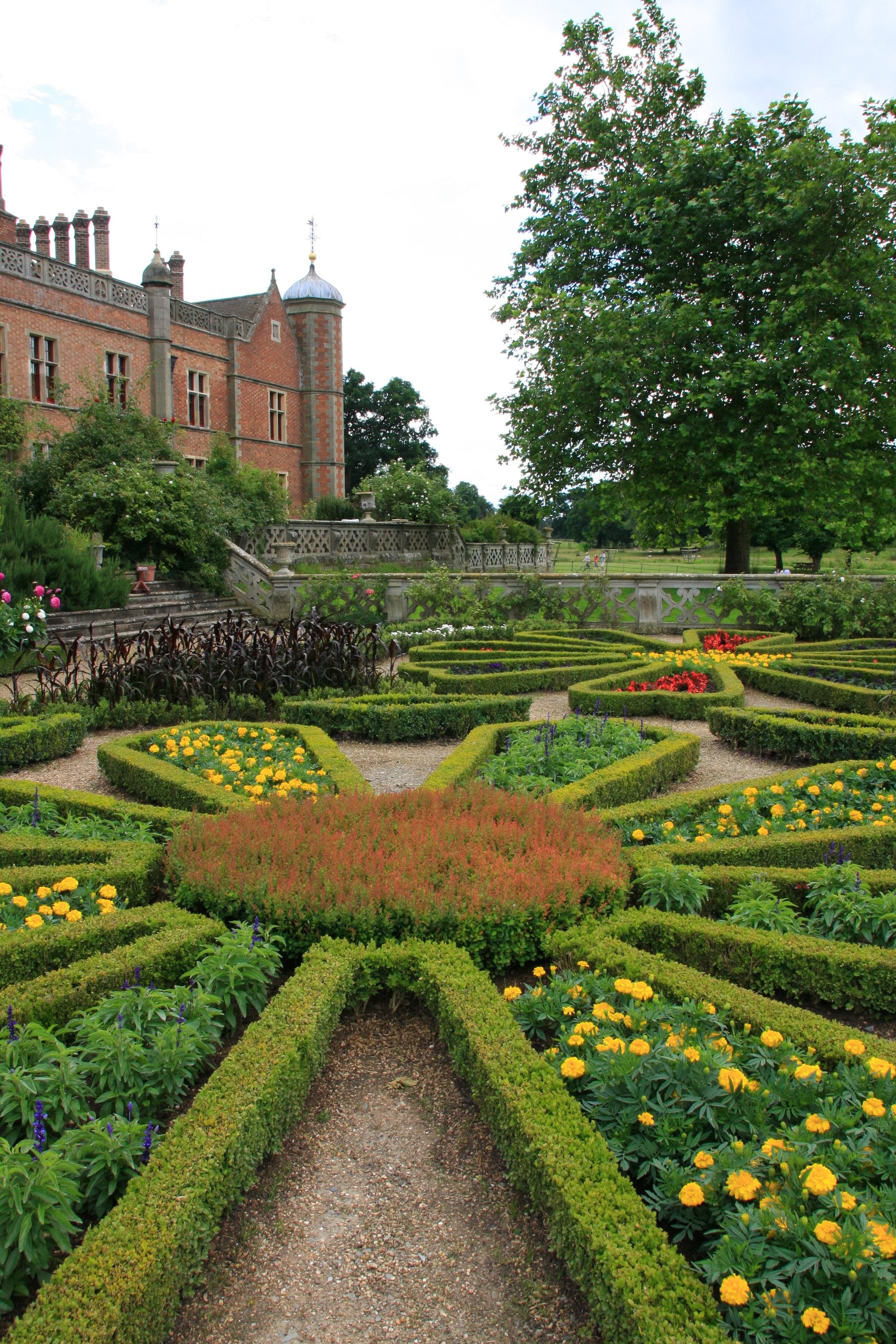 Charlecote Park Gardens, Warwick